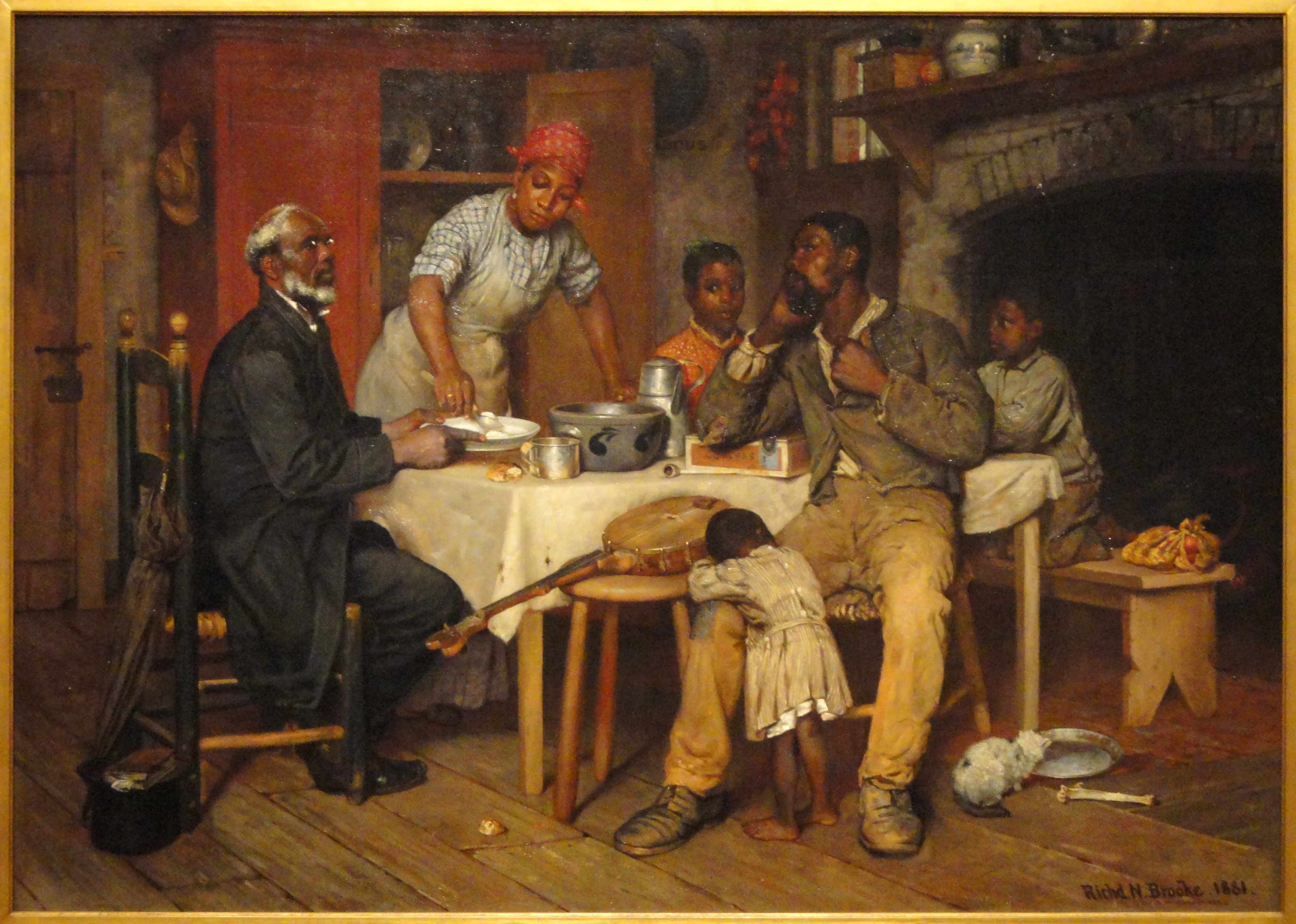 Painting exhibited in the Corcoran Gallery of Art, Washington, D.C., USA. There were no prohibitions against photography in the museum. This artwork is in the public domain because the artist died more than 70 years ago.